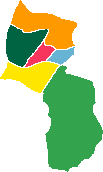 Subdivision of Yinchuan